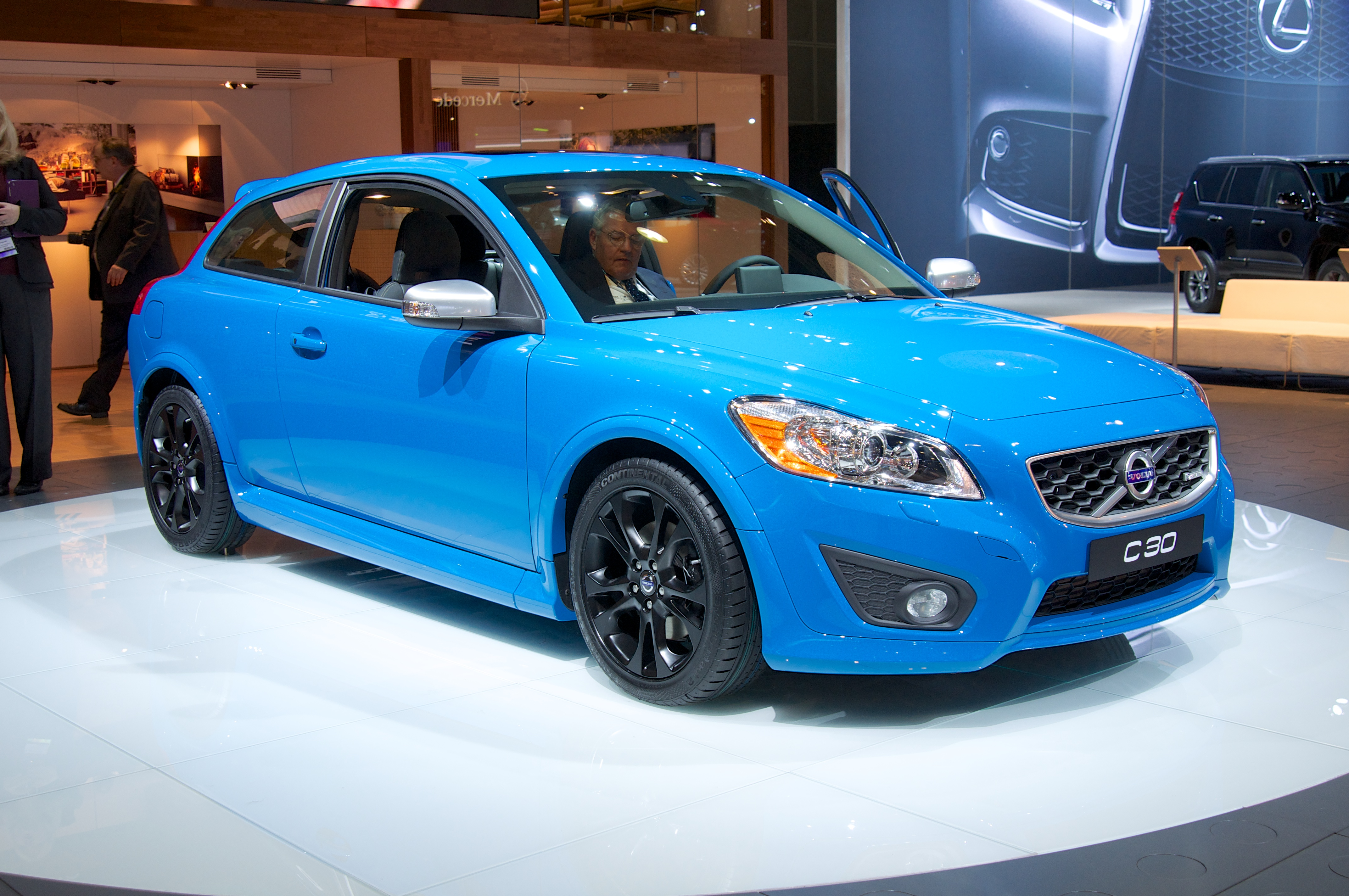 Seen at the 2012 Los Angeles Auto Show. Press day - Wednesday, November 28th. If you use one of my photos, please be so kind as to attribute me and link back to the photo's page. THANK YOU!